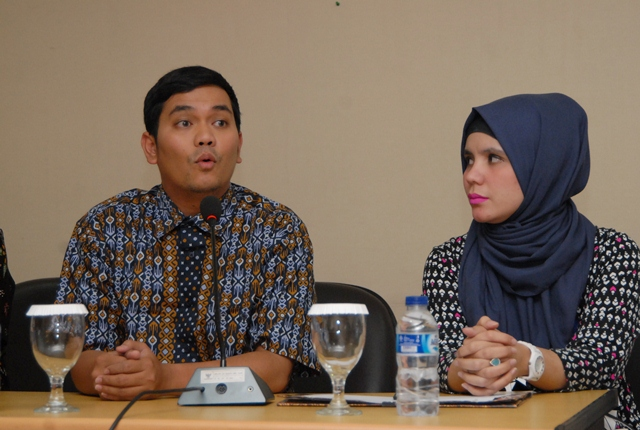 The famous artist Indra Bekti, accompanied by his wife Aldila Jelita and their attorneys, came to the Central KPI to submit their complaints regarding infotainment broadcasts on a number of TVs, Wednesday, February 3, 2016. Their complaints were received directly by Central KPI Commissioners, Agatha Lily and Sujarwanto Rahmat Arifin in the KPI meeting room. Center.